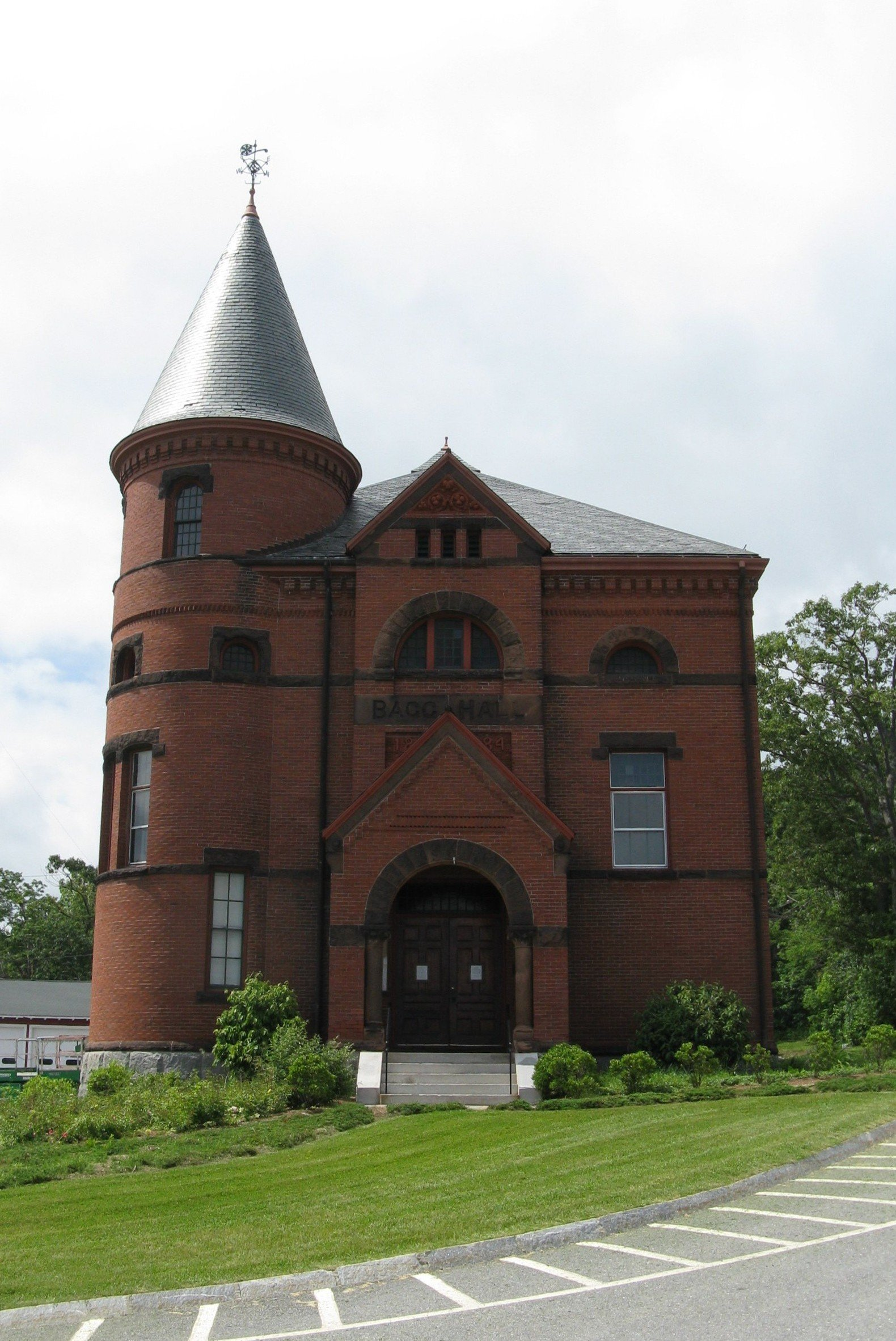 Bagg Hall, Princeton Center Historic District, Princeton Massachusetts